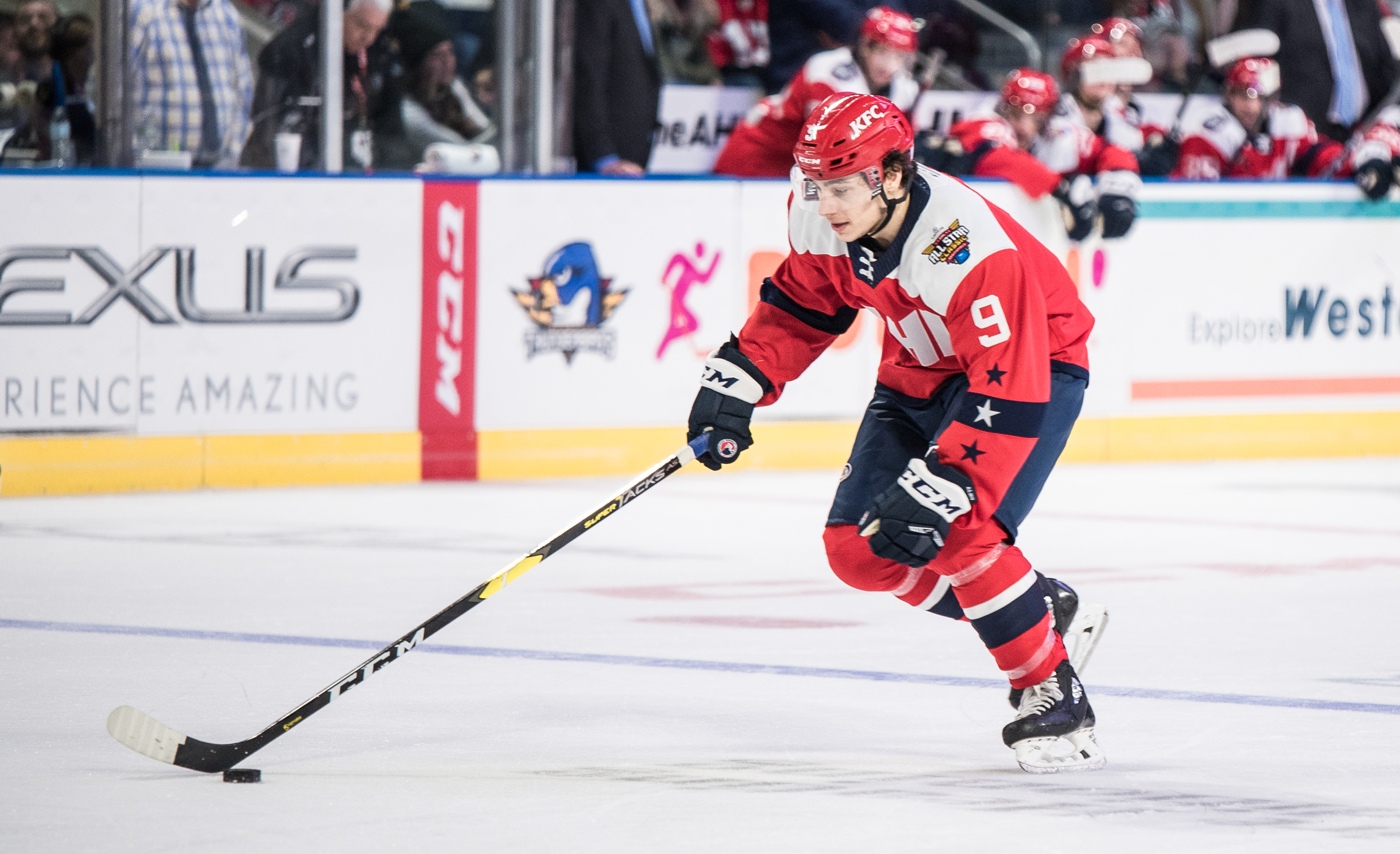 Photo by: China Wong